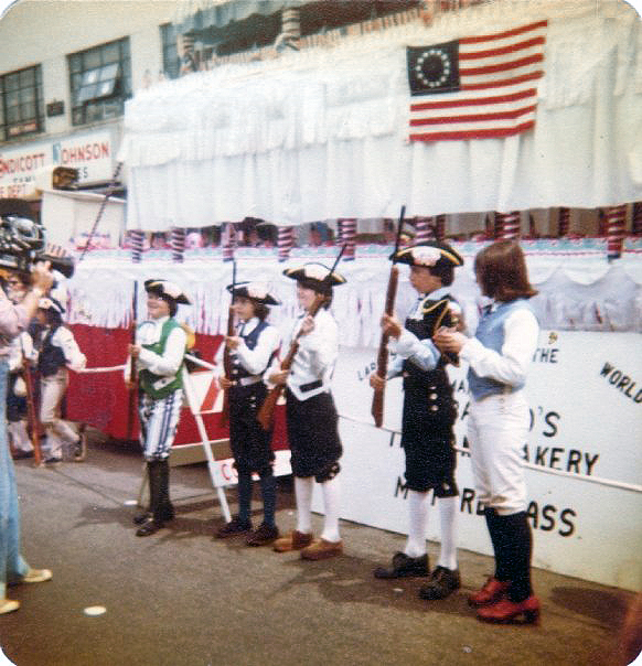 An Endicott-Johnson, located in George F. Johnson's hometown of Milford, Massachusetts, can be seen in the background of this U.S. Bicentennial celebration on May 16, 1976. Members of the Milford Youth Militia, a parade marching group, use fake muskets to guard Milford's attempt to create the world's largest birthday cake.